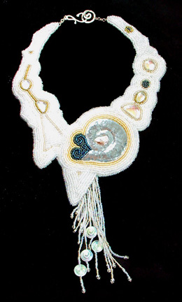 Contemporary application of seed bead embroidery techniques. Original design beaded broad collar by Gale Bez, created in 2006. Materials: Glass seed beads, fused glass cabochons, repoussee sterling silver, pressed glass beads, keishi pearl and hammered sterling wire clasp.